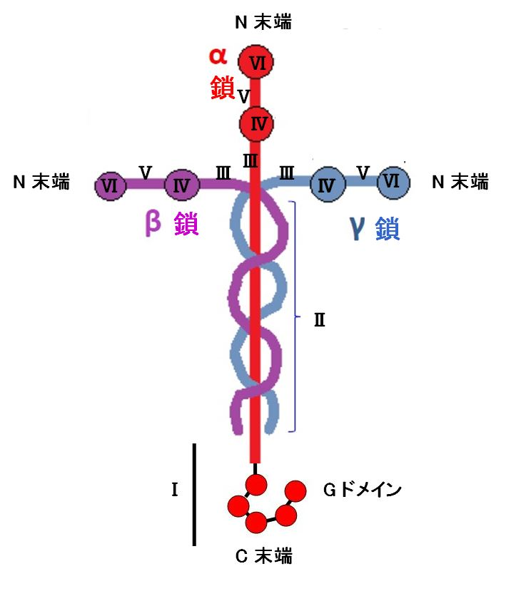 Japanese version of domain structure of laminin